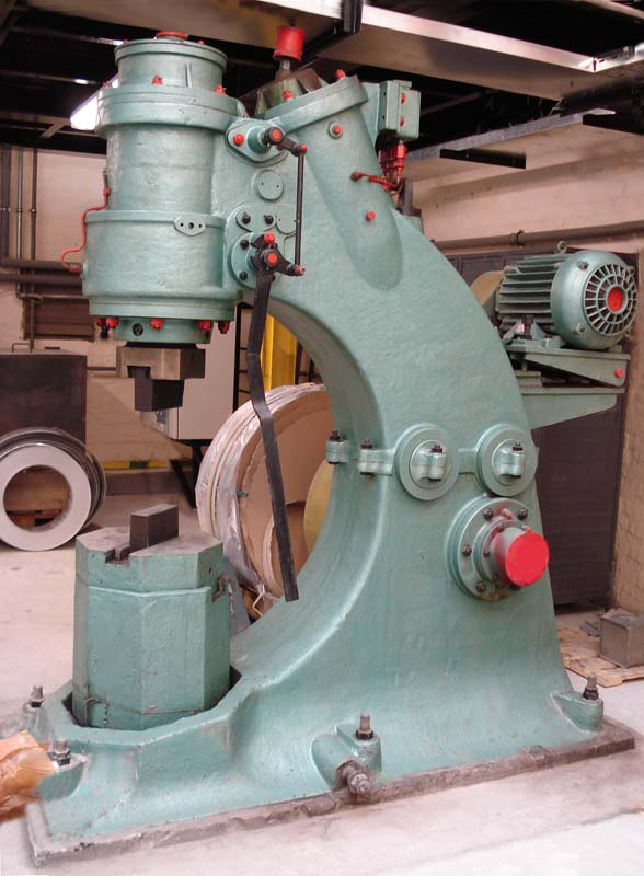 Air cushion hammer